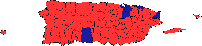 Puerto Rican general election, 1972 map.